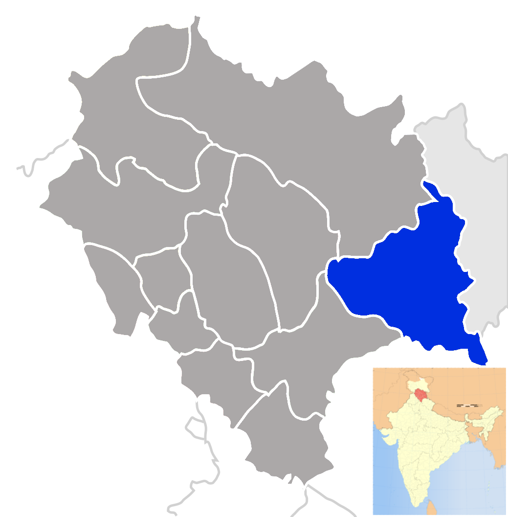 Kinnaur district of Himachal Pradesh